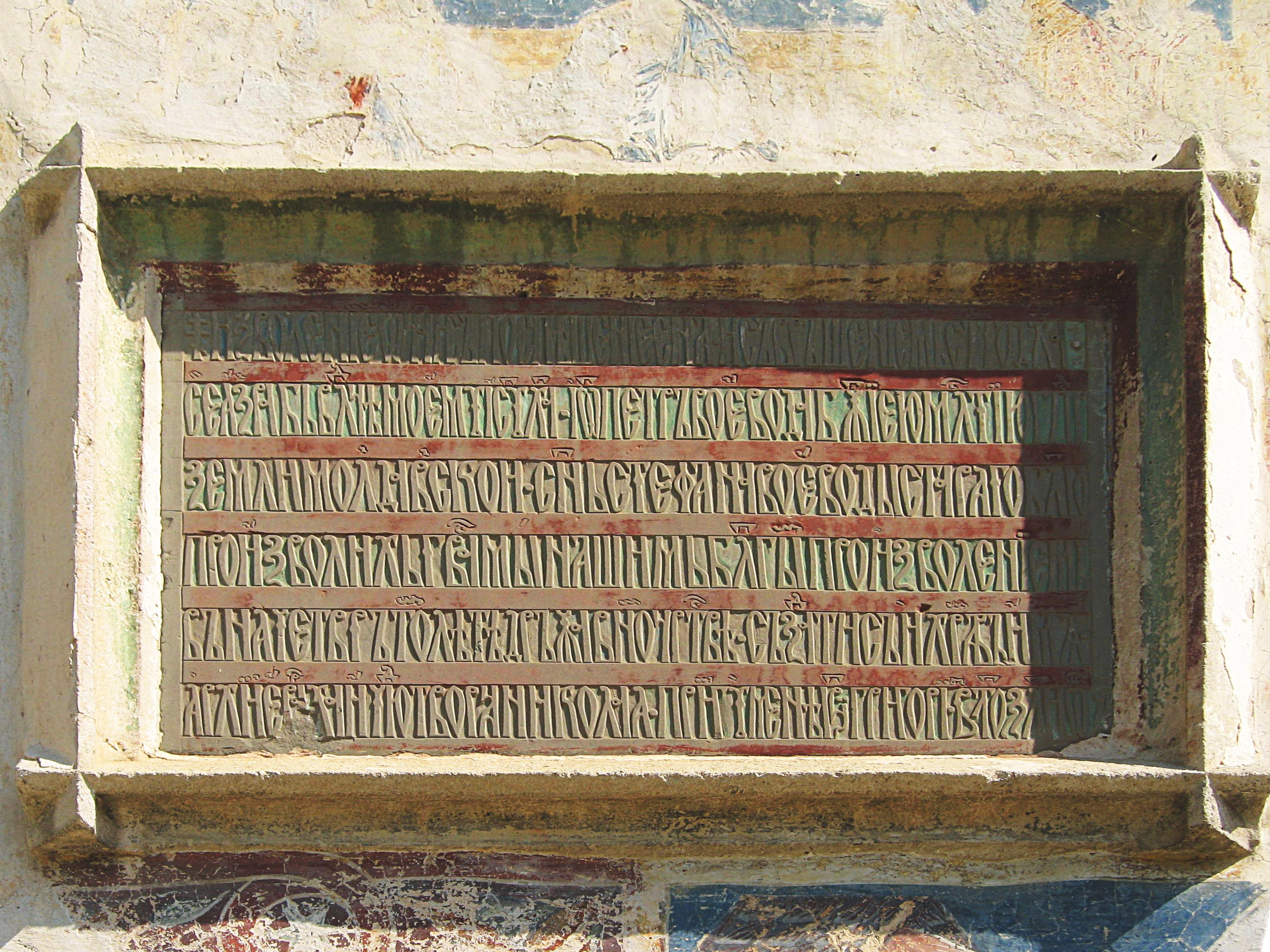 Probota MonasteryRomână: Pisania de la Mănăstirea Probota. Traducerea textului este urmatoarea:"Cu vrerea Tatălui și cu ajutorul Fiului și cu săvârșirea Sfântului Duh, iată eu robul stăpânului meu Iisus Hristos, Io Petru Voievod, cu mila lui Dumnezeu Domn al Țării Moldovei, fiul lui Ștefan Vodă cel Bătrân, a binevoit domnia mea cu buna mea voie, în al patrulea an al stăpânirii (mele) împărătești, a zidit acest hram întru numele arhiereului și făcătorului de minuni Nicolae, fiind egumen kir Grigorie, în anul 7038 oct(ombrie) 16." (1530)